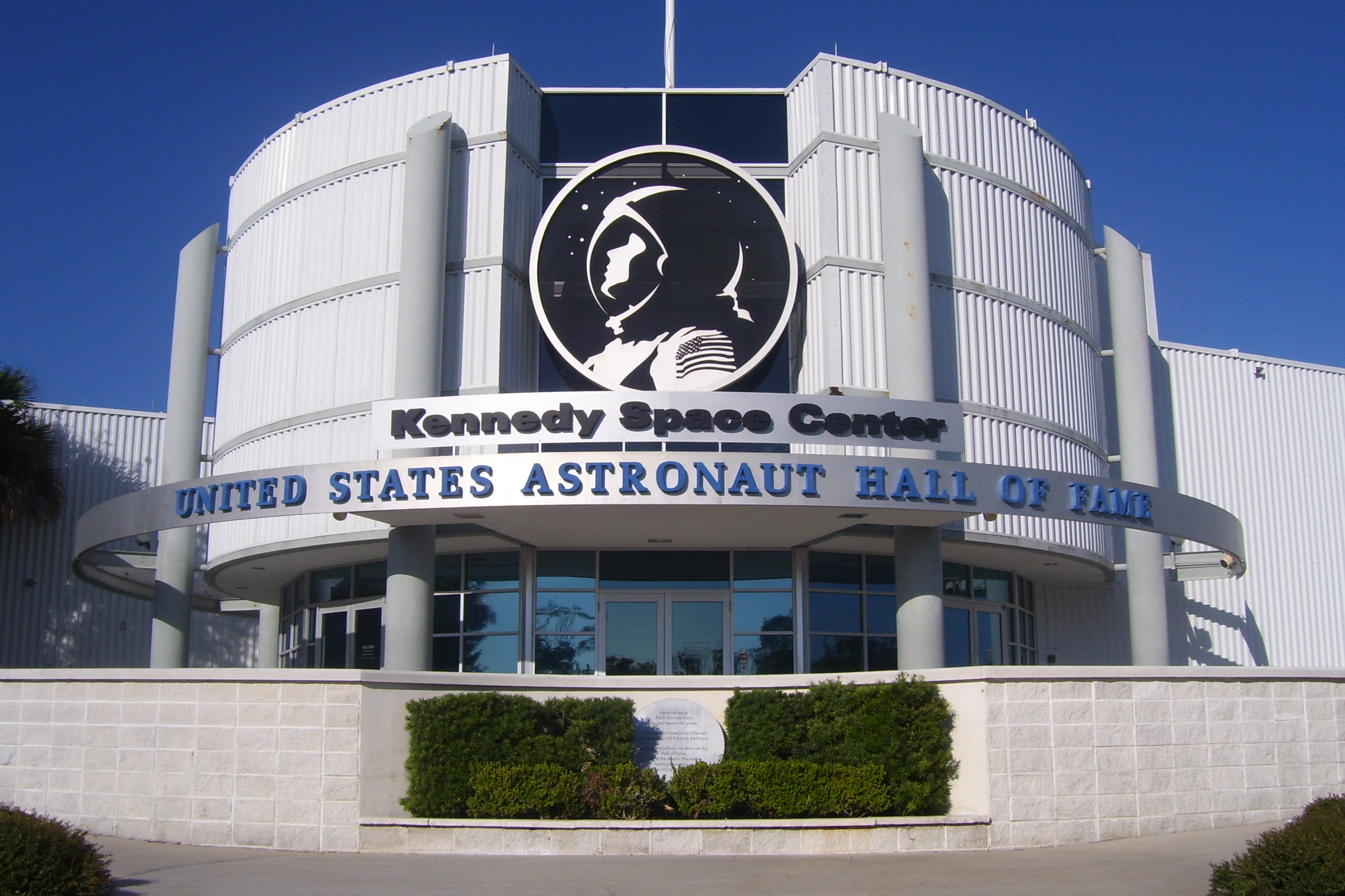 The front of the United States Astronaut Hall of Fame building in Titusville, Florida. Taken in November 2007. I release the work for use wherever.